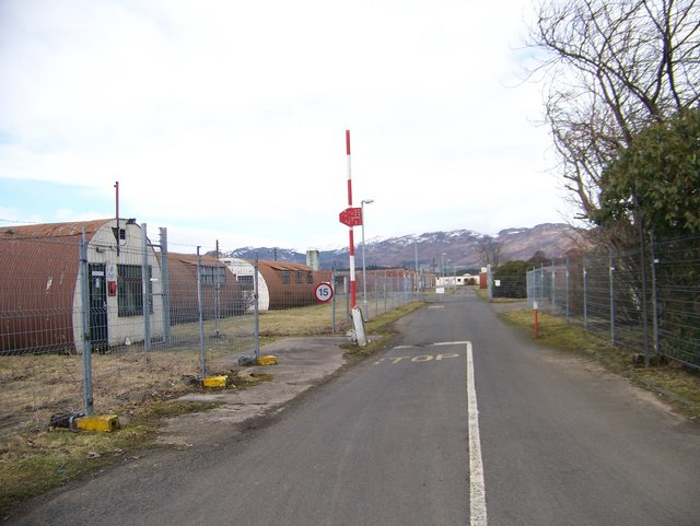 Entrance to Cultybraggan Camp